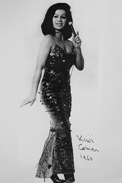 A photograph of Carmen Rupe, a famous drag queen performer and LGBT activist from New Zealand.